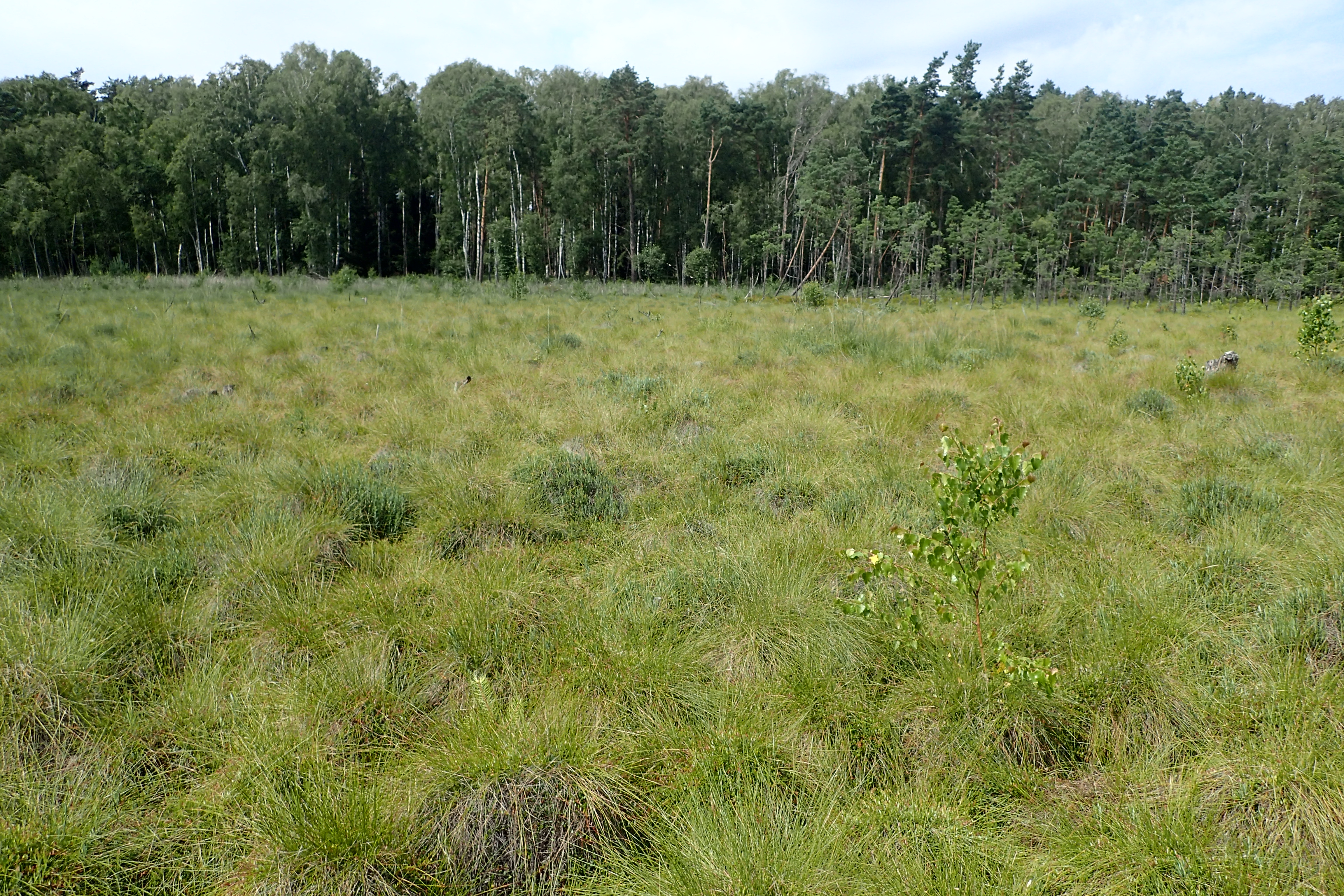 Eriophorum vaginatum-Sphagnum moor S from Machawica near Przybiernów, NW Poland. Apart dominant ie habitat Andromeda polifolia, Oxycoccus palustris